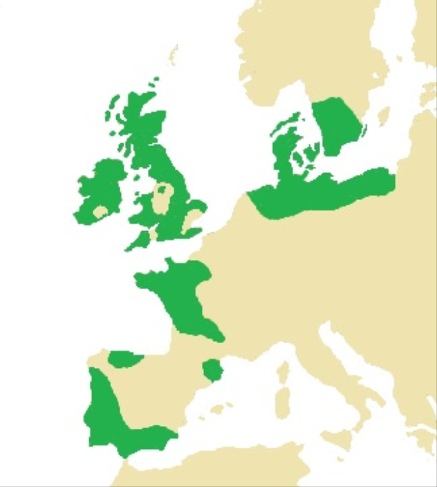 A map of the distribution of long barrows and related Early Neolithic funerary monuments. Based on the map produced in Frances Lynch, Megalithic Tombs and Long Barrows in Britain' (Shire Archaeology, 2004 [1997]), page 6.